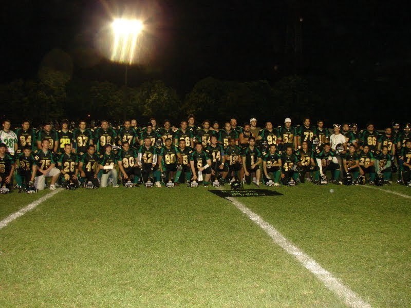 Barigui Crocodiles, Football team